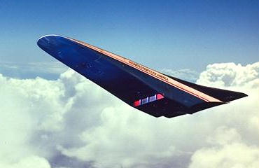 Artist's concept of X-30 NASP vehicle